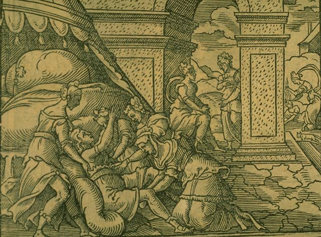 Alcmena's Labor. Engraving by Virgil Solis for Ovid's Metamorphoses Book IX, 285-323. Francfurt, 1581, fol. 118 v., image 5.